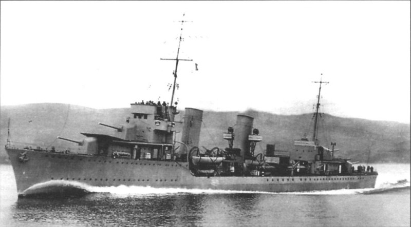 Yugoslav destroyer Dubrovnik, 1933 (from 1941 under Italian flag as Premuda)